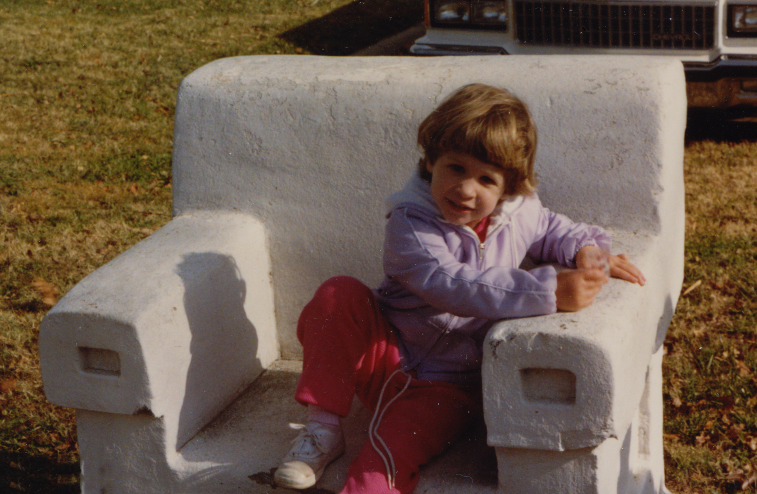 A girl sits on one of two concrete chairs in Frisco Park in Rogers, Arkansas in December 1987. The chairs were originally located in the amphitheater at Monte Ne near Rogers. The chairs' original location is now submerged under Beaver Lake. The child in the photo is Ann Schumin (now Ann Lysy), sister of User:SchuminWeb.